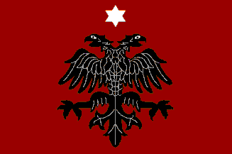 The Flag of the Provisional Government of Albania 1912-1914